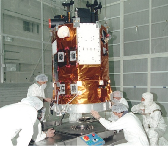 The SAC-C satellite in the clean room of INVAP